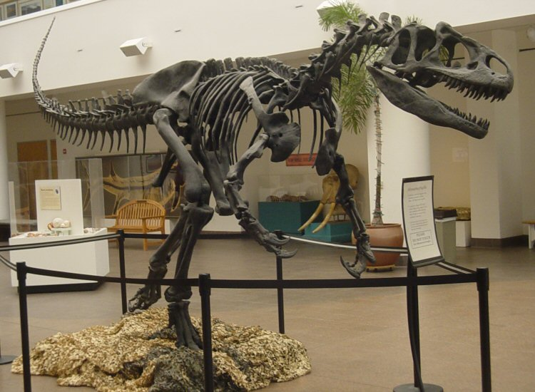 Allosaurus fragilis skeleton mounted in the lobby of the San Diego Natural History Museum. Digital picture taken by me in May of 2006. Image is unconditionally released into the public domain.